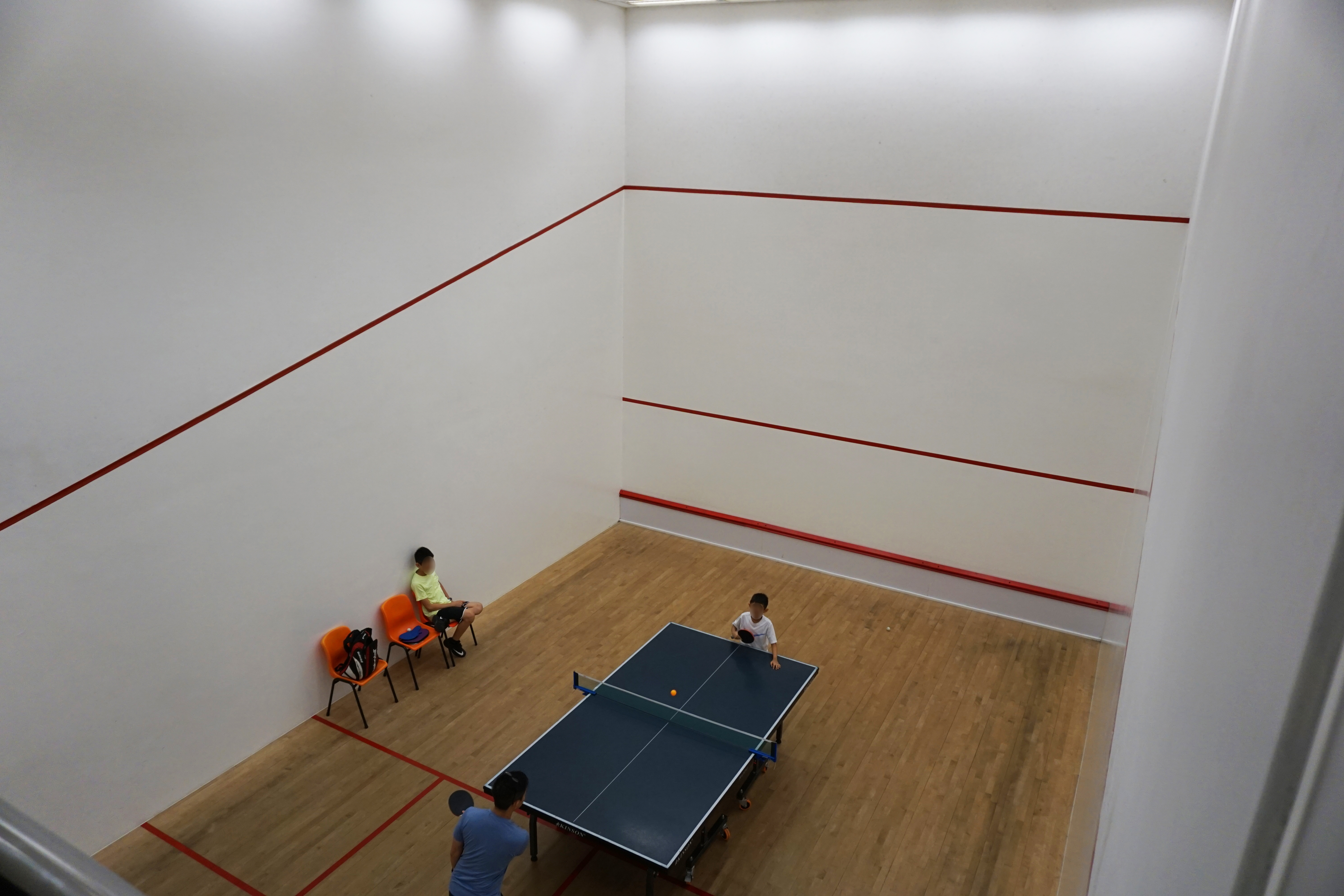 Squash Centre in Admiralty, Hong Kong.